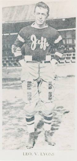 In 1920, The National Football League was established by a group football franchise owners and Ralph Hay at his Hupmobile dealership in Canton, Ohio. Lyons represented the Rochester Jefferesons and is a co-founder of the league. This image is well known and can be found in various books about early football.